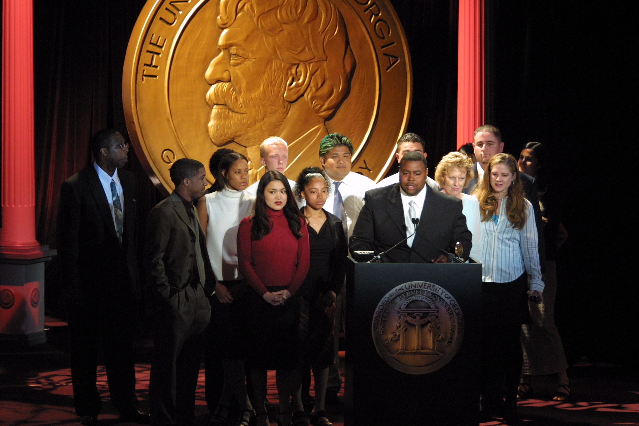 PHOTO CREDIT: ANDERS KRUSBERG / PEABODY AWARDS Gerald “Whiz” Ward II of Youth Radio accepts the Peabody Award, 61st Annual Peabody Awards Luncheon Waldorf-Astoria Hotel May 20, 2002